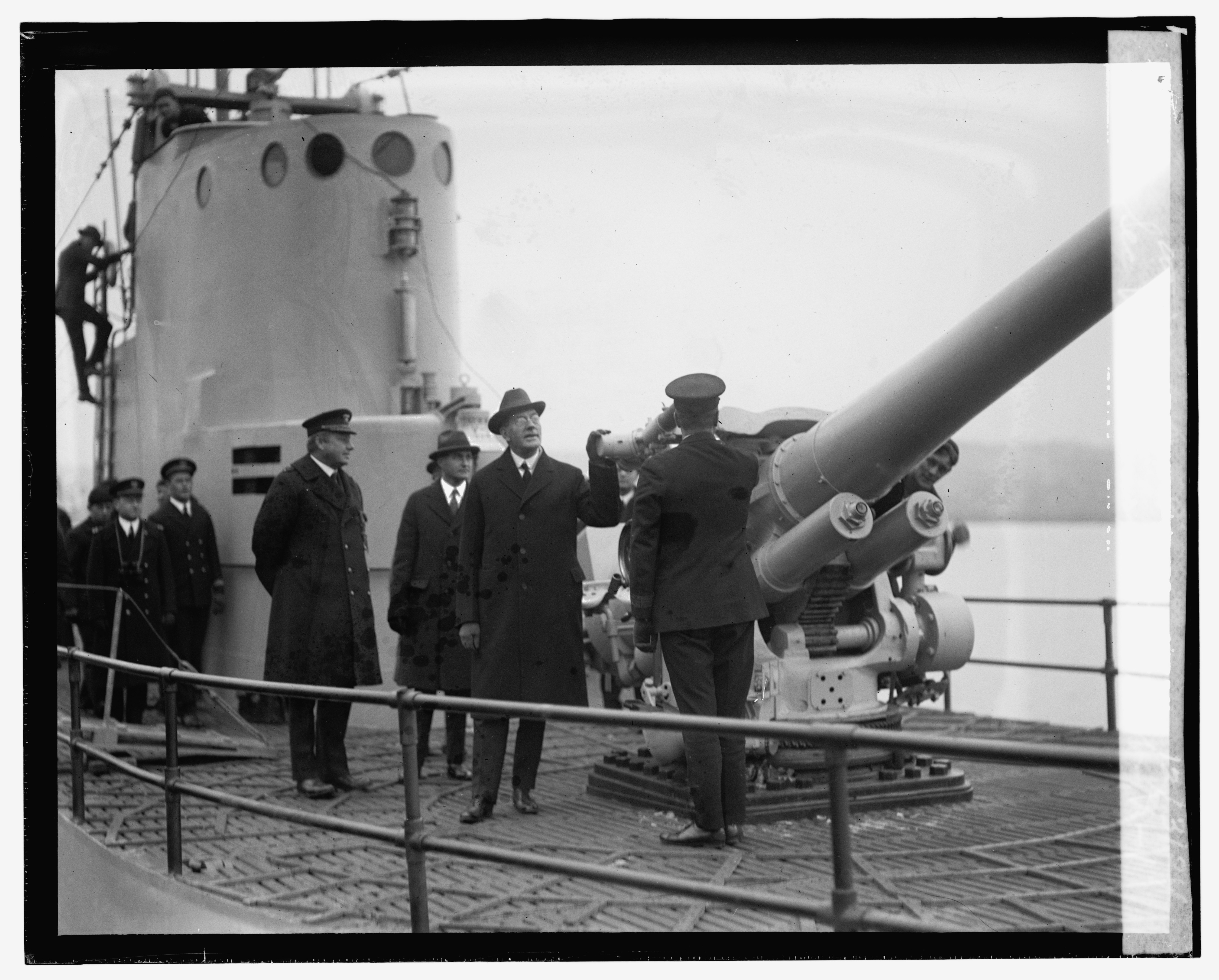 Title: Sec. Wilbur inspecting Sub V-1 at Navy Yard, 12/3/24 Abstract/medium: 1 negative : glass ; 4 x 5 in. or smaller